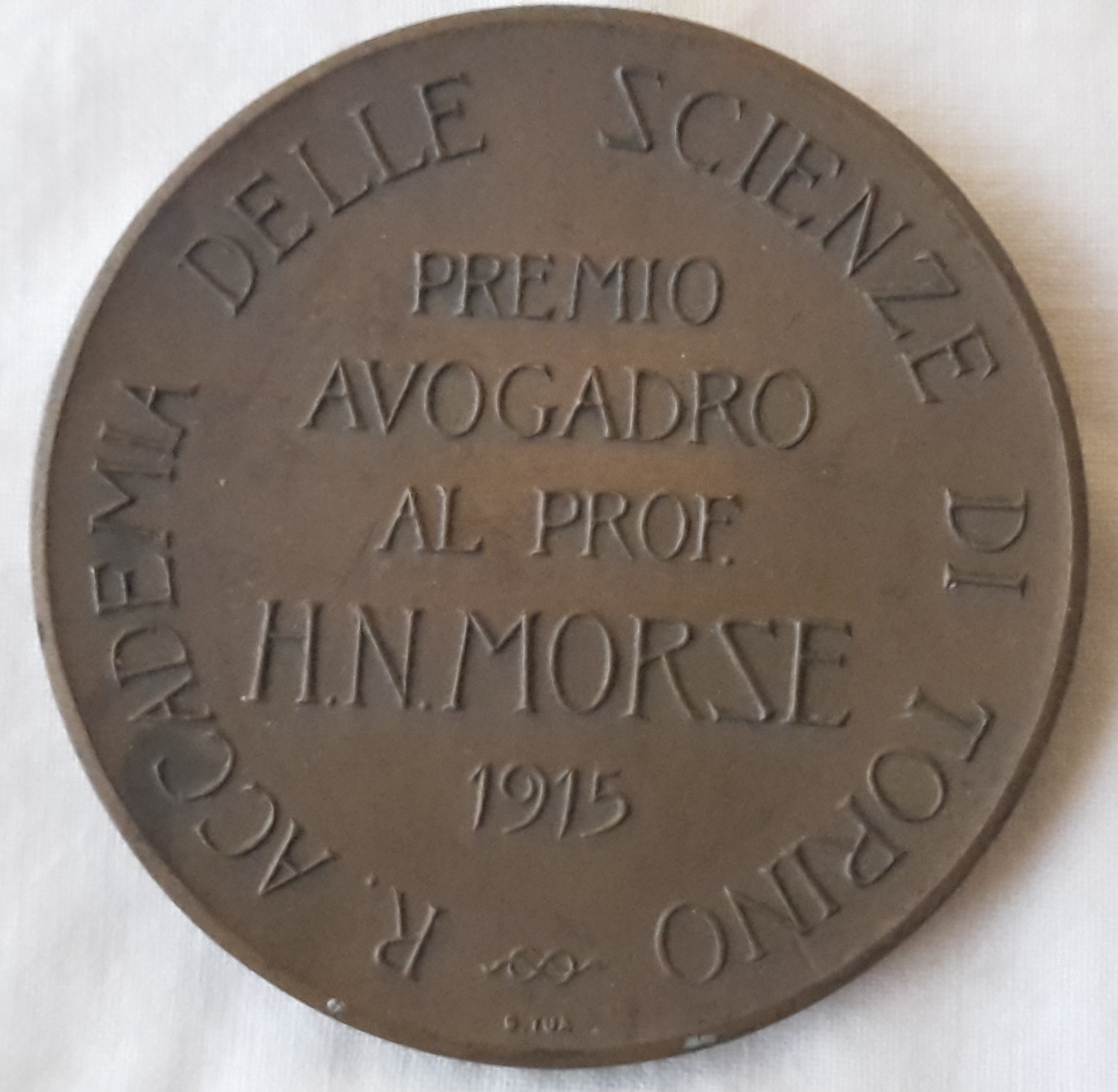 Avogadro medal awarded to H.N. Morse by the Accademia delle Scienze di Torino, 1915. Reverse.